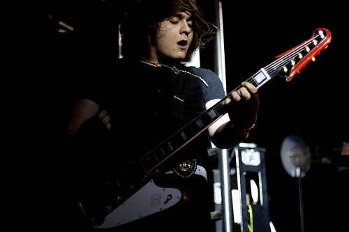 mason musso performing live